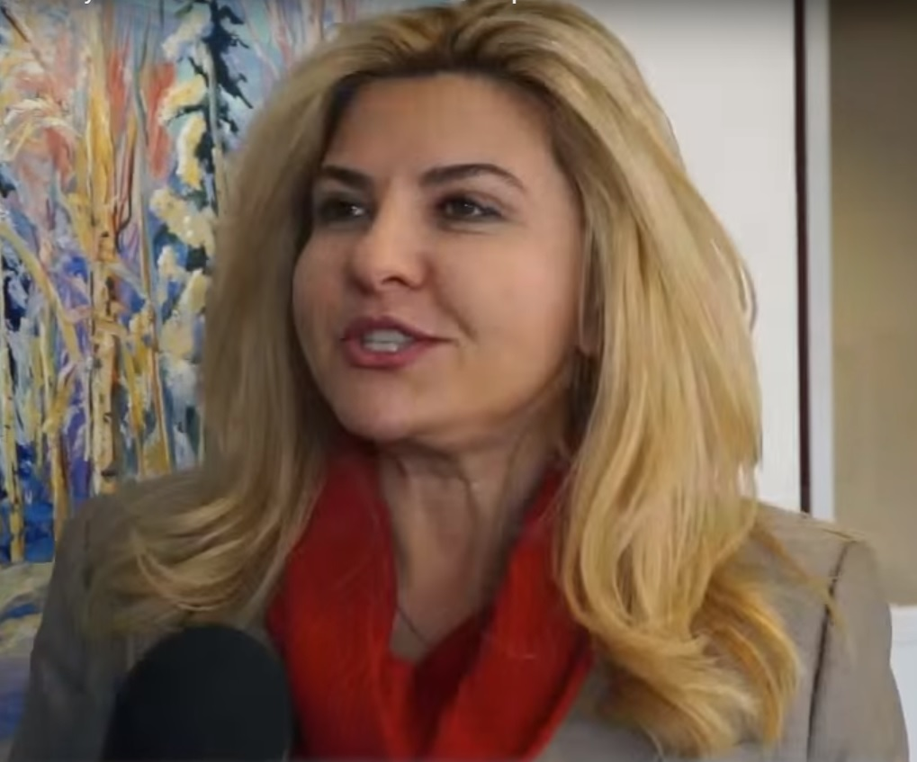 Nevada State Assemblywoman Michele Fiore interviewed by Theresa Catalani for The Stealth Reporter. The Stealth Reporter of Nevada covers issues at the Cities of Reno and Sparks, the Washoe County Commission, the Nevada Legislature and Governor, the Washoe County School District, Truckee Meadows Flood Control Authority, Truckee Meadows Water Authority, and the Nevada Public Utilities Commission. Visit